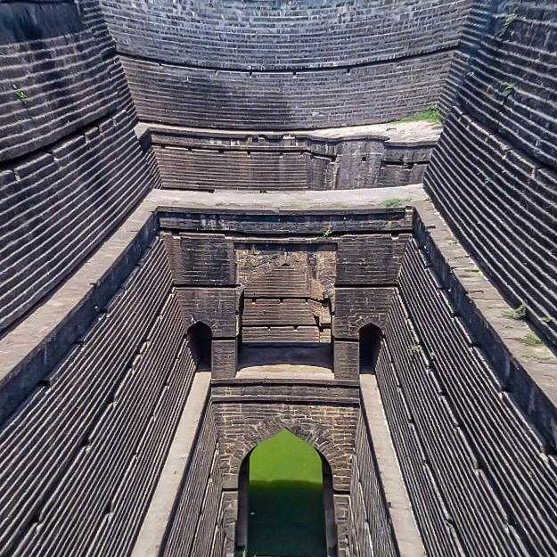 Karad